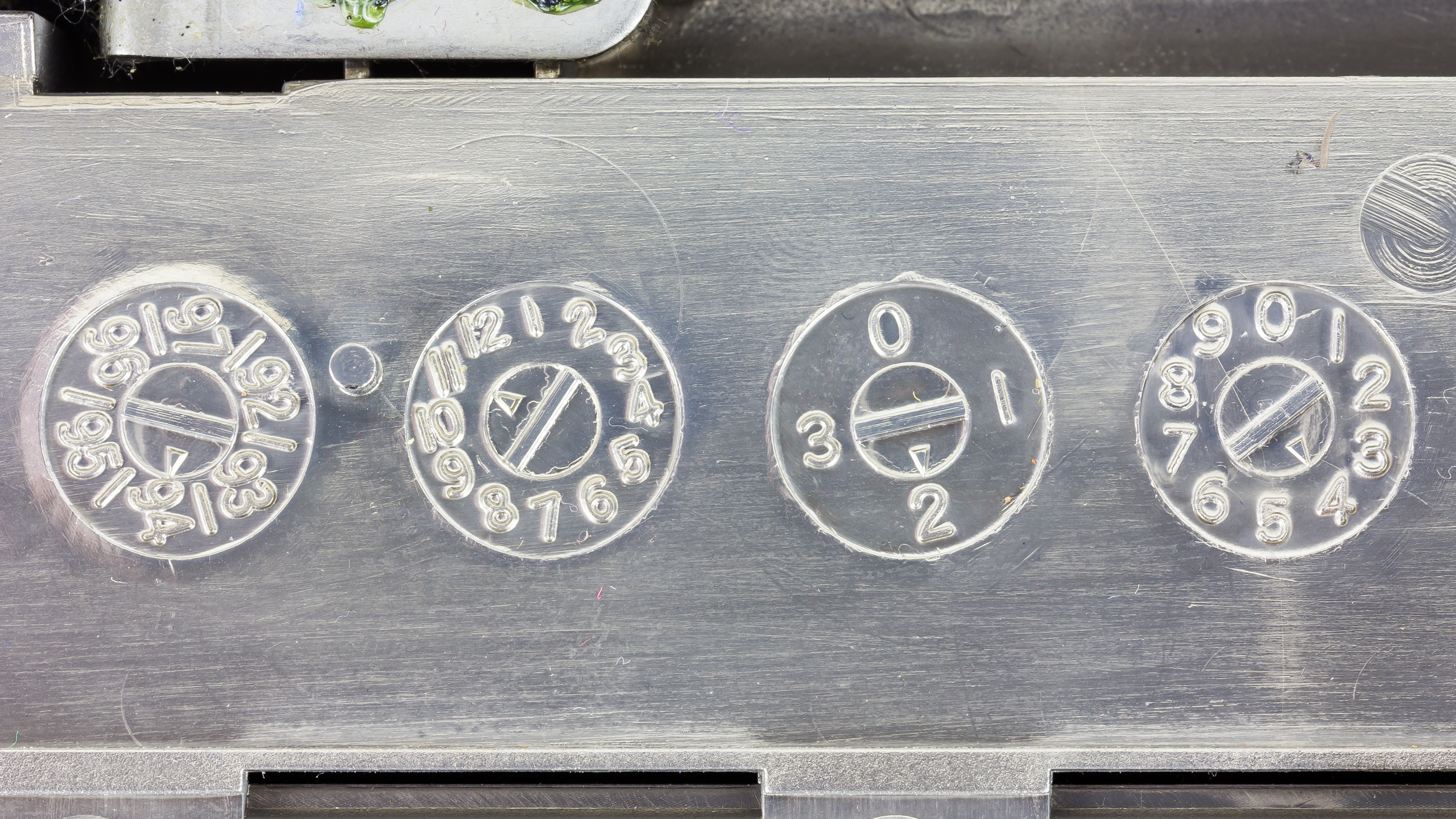 Laptop Acrobat Model NBD 486C, Type DXh2 - Casting clock inside the caseof the laptop